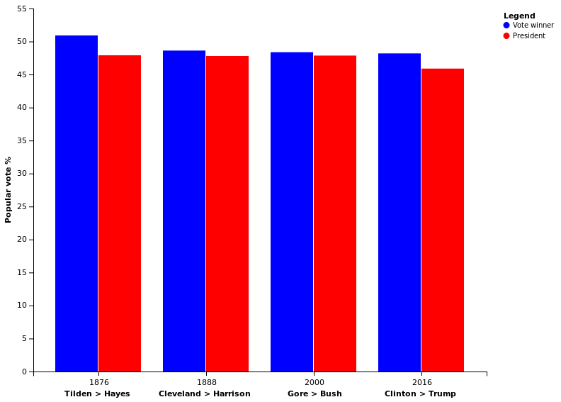 Comparison of the four U.S. presidential elections in which the Electoral College winner lost the popular vote. Read the article: United States presidential elections in which the winner lost the popular vote: 1876: Samuel J. Tilden (Democrat) vs. Rutherford B. Hayes (Republican) 1888: Grover Cleveland (Democrat) vs. Benjamin Harrison (Republican) 2000: Al Gore (Democrat) vs. George W. Bush (Republican) 2016: Hillary Clinton (Democrat) vs. Donald Trump (Republican) Chart created with Template:Graph:Chart, data from